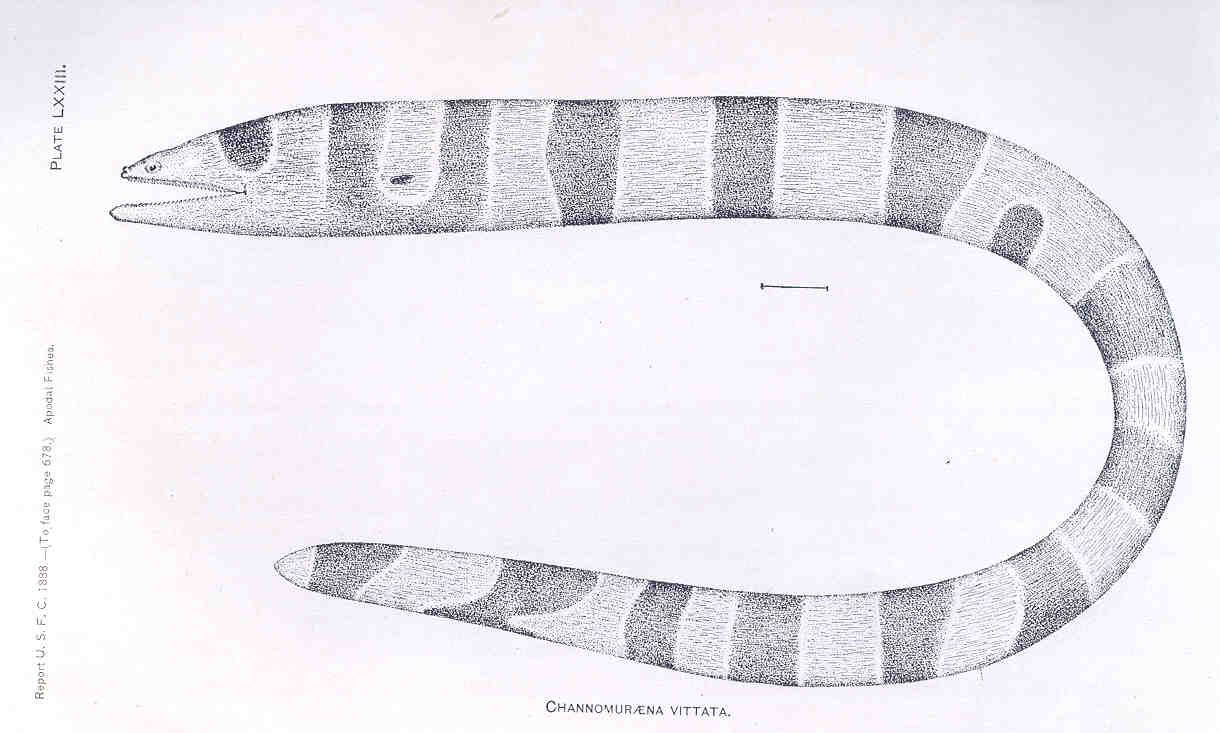 Channomuraena Vittata Subject: Channomuraena Vittata Tag: Fish